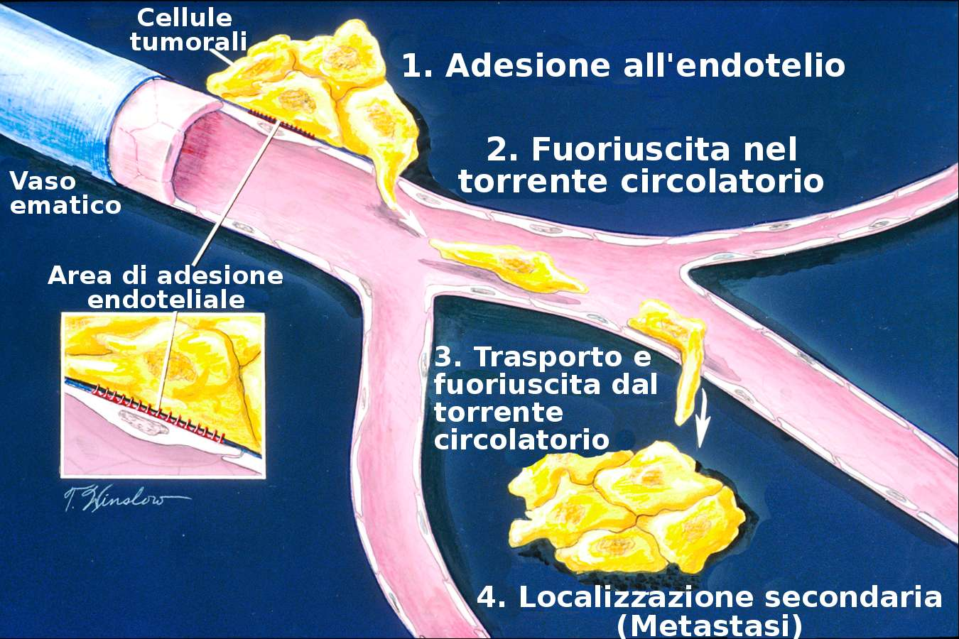 Title: Graphics: Illustration: Metastasis: How Metastasis Occurs Description: This is a schematic drawing of the stages of metastasis 1) attachment 2) local breakdown 3) locomotion 4) secondary tumor. Subjects (names): Topics/Categories: Graphics -- Illustration Type: Color Print. Black & White Print. Color Source: National Cancer Institute Author: Unknown photographer/artist AV Number: AV-8808-3617 Date Created: August 1988 Date Entered: 1/1/2001 Access: Public